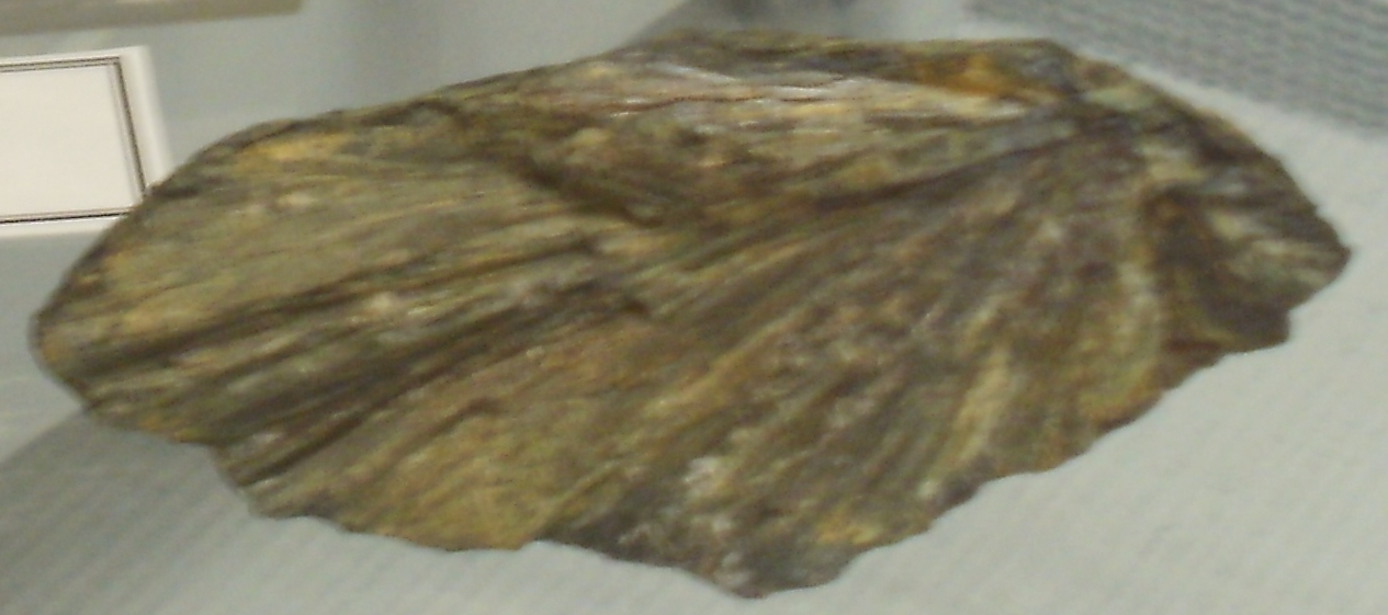 Marićite from the Rapid Creek area of northern Yukon, Canada. Held in the A. E. Seaman Mineral Museum.